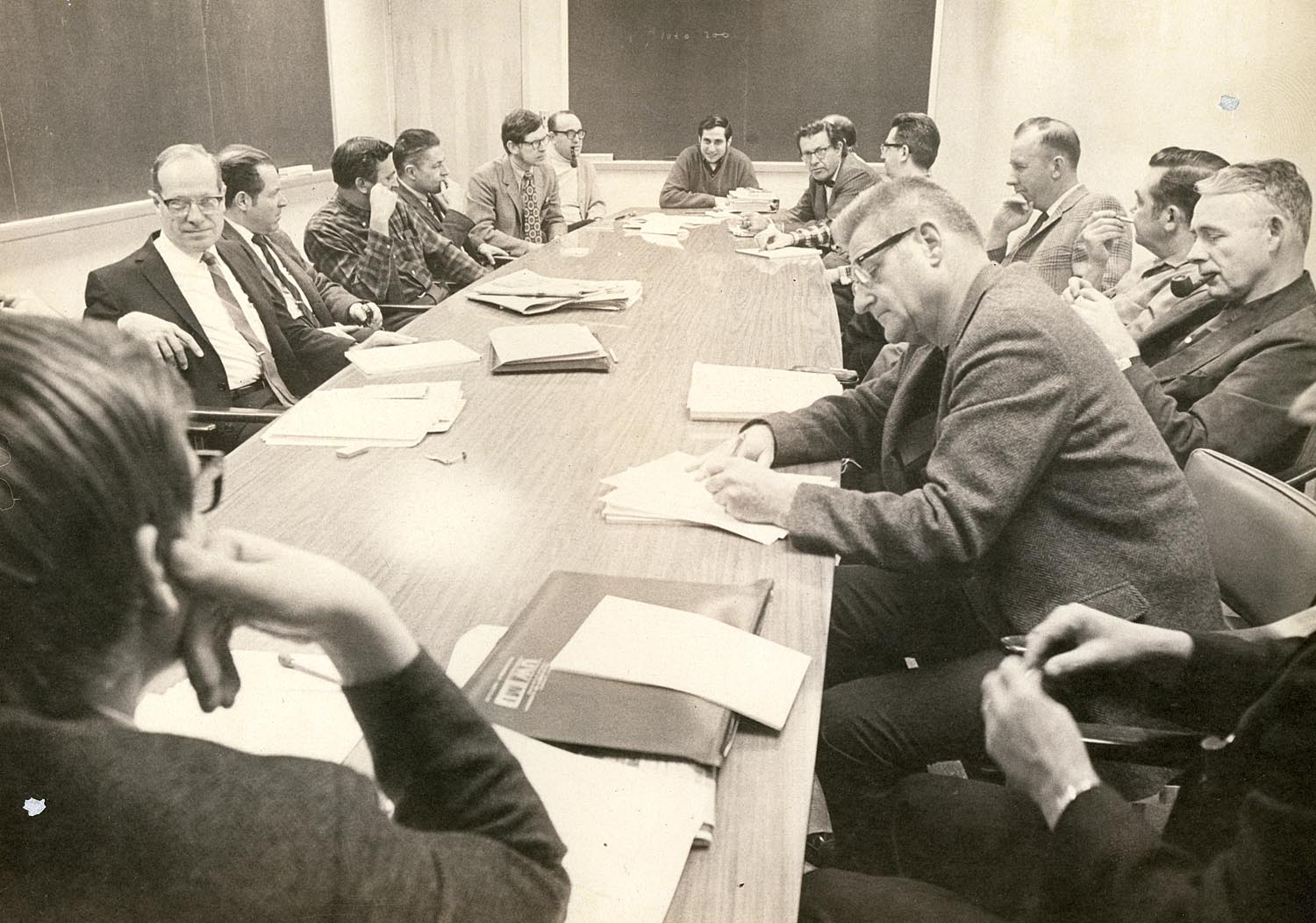 "Representatives from TAA and the University sit down to negotiate the end of the 1970 strike." Local Identifier: UW.uwar00203.bib